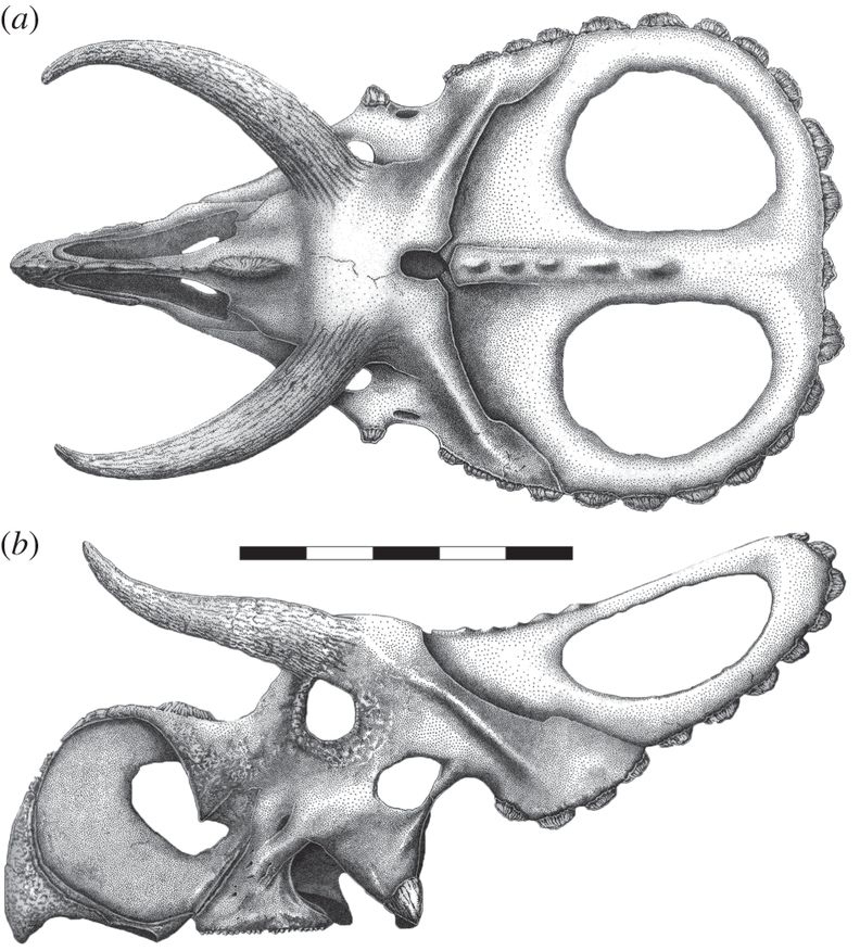 Nasutoceratops titusi, n. gen et. sp., skull reconstruction in (a) dorsal and (b) lateral views. (a,b) Scale bars, 50 cm.